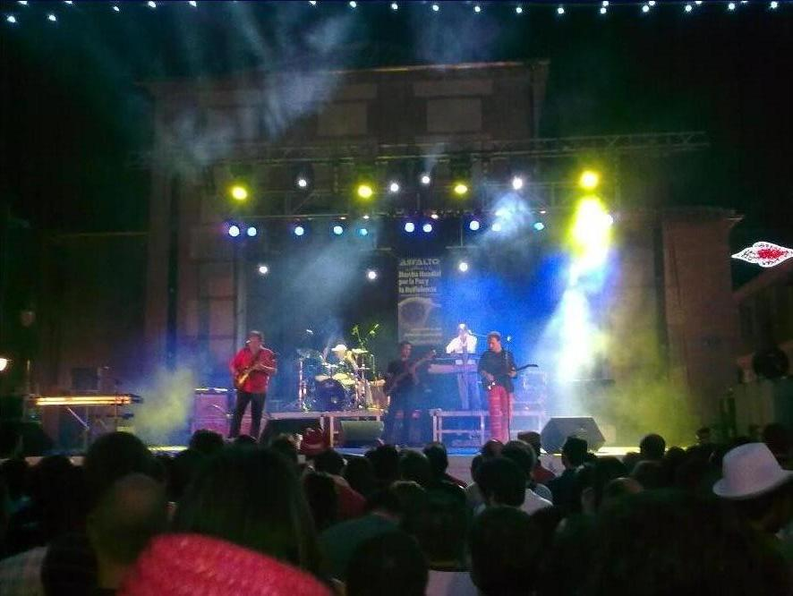 Spanish rock group Asfalto playing live in San Sebastián de los Reyes, Madrid, Spain.